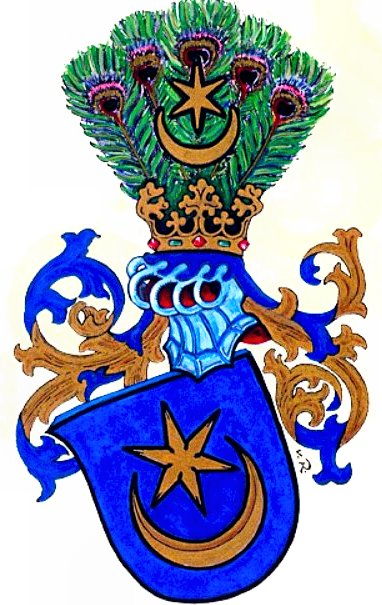 Coat of arms of Morstein family